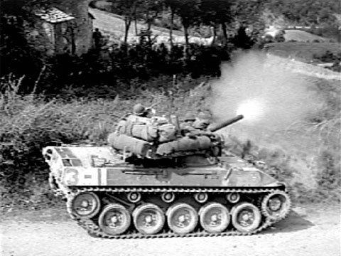 M18 fires at Germans in Italy.